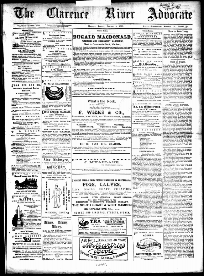 Front cover of the Clarence River Advocate on 4 January 1898